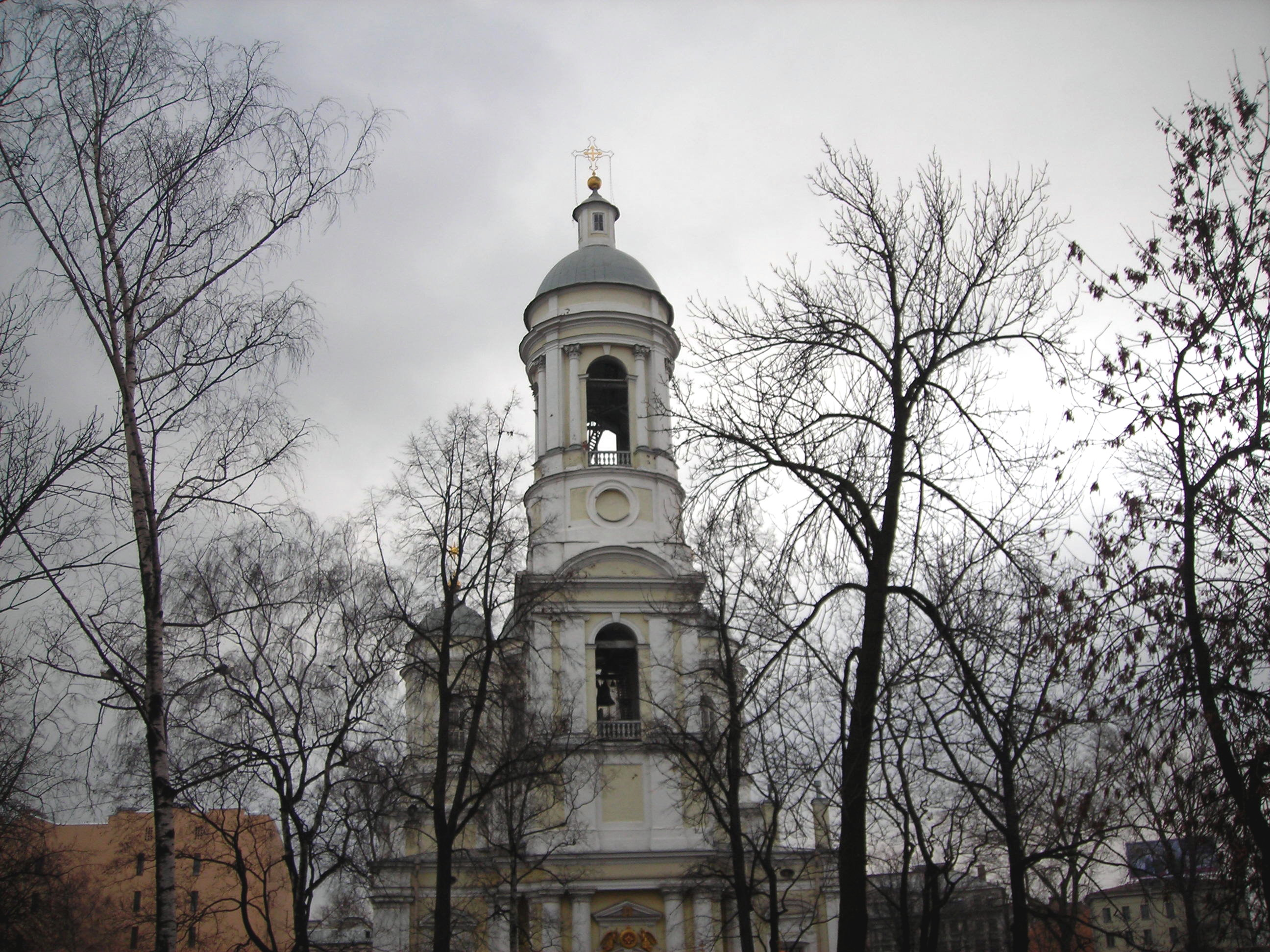 Bell tower of St. Vladimir's Cathedral, Spb